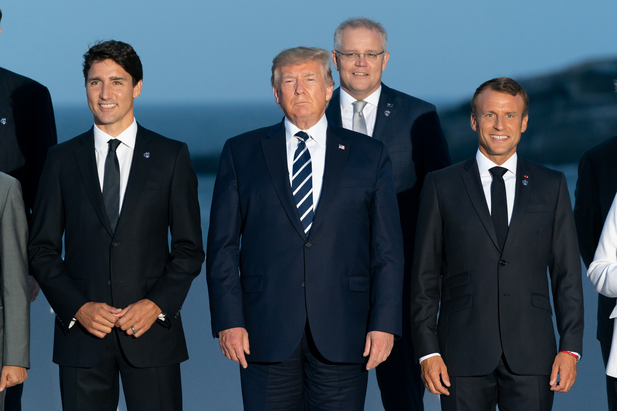 President Donald J. Trump joins the G7 Leadership and Extended G7 members as they pose for the “family photo” at the G7 Extended Partners Program Sunday evening, Aug. 25, 2019, at the Hotel du Palais Biarritz, site of the G7 Summit in Biarritz, France.